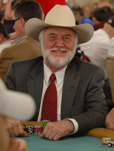 Crandell Addington at the 2005 World Series of Poker.(cropped)